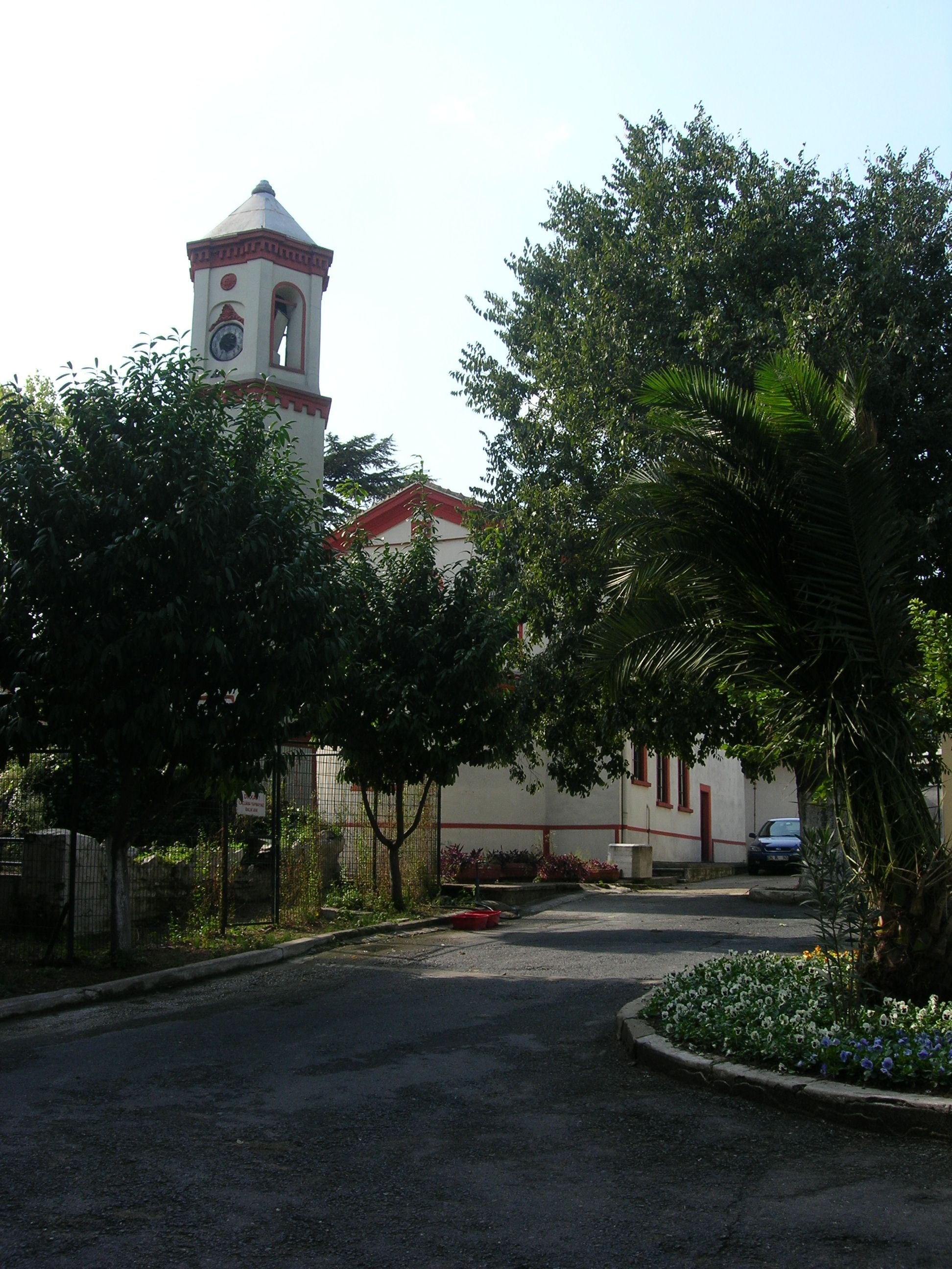 The church of the Greek hospital in Balikli